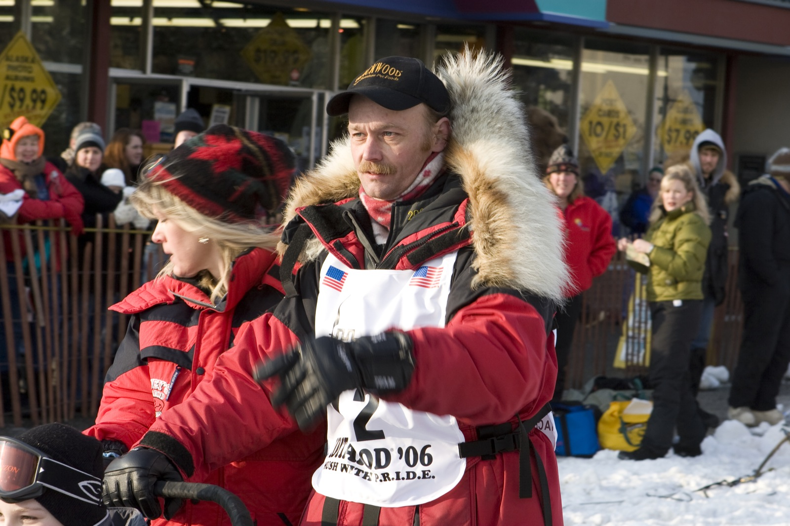 Iditarod 2006, Official start in Anchorage, AK. Musher Mitch Seavey 2006 Iditarod